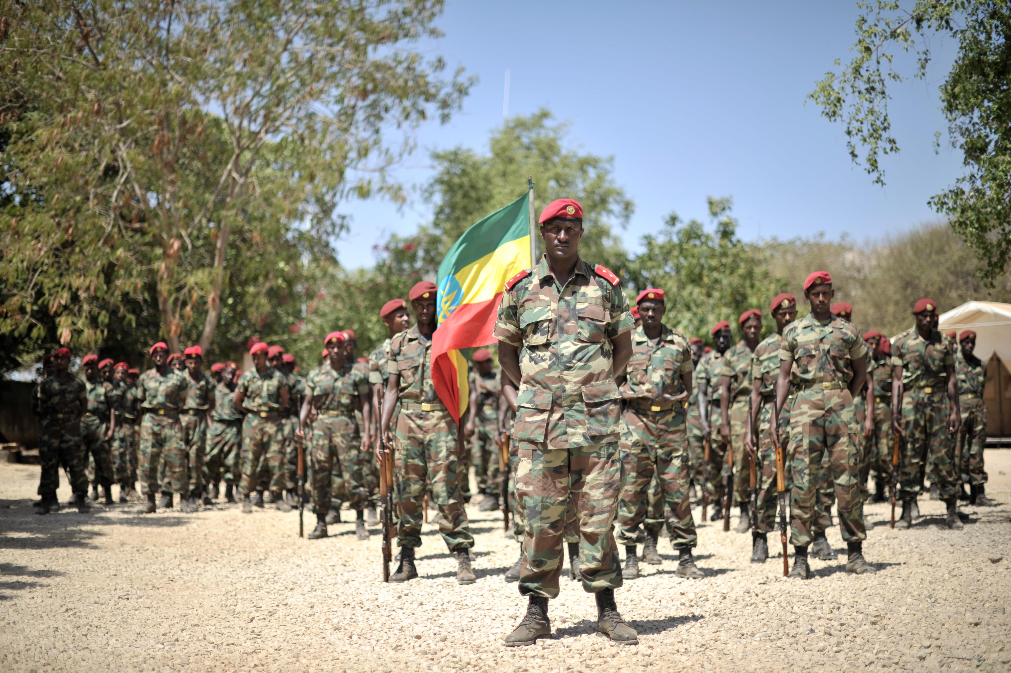 Members of the Ethiopian National Defense Forces stand in formation during a ceremony in Baidoa, Somalia, to mark the inclusion of Ethiopia into the African Union peace keeping mission in the country on January 22. AU UN IST PHOTO / Tobin Jones